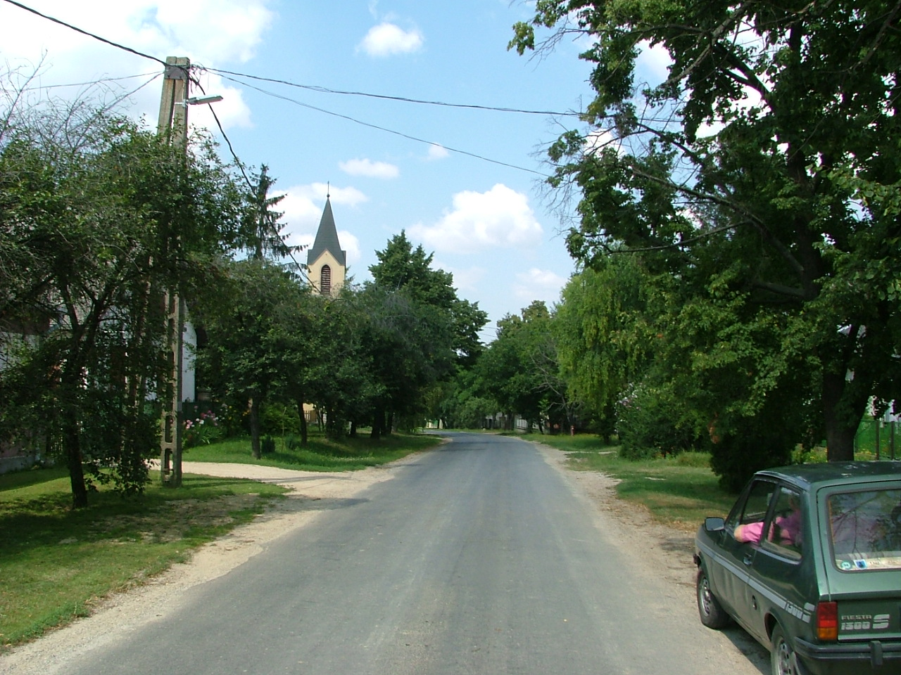 Sikátor